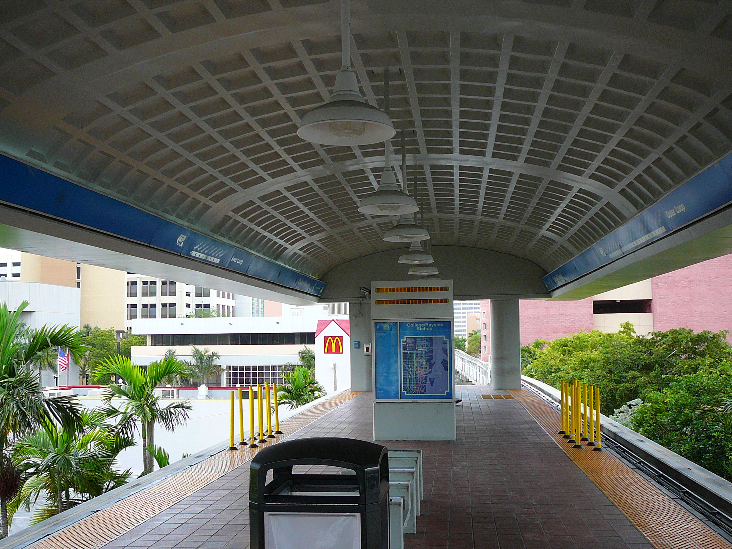 Digital photo taken by Marc Averette. The College/Bayside Metromover station in downtown Miami on 5/10/2008